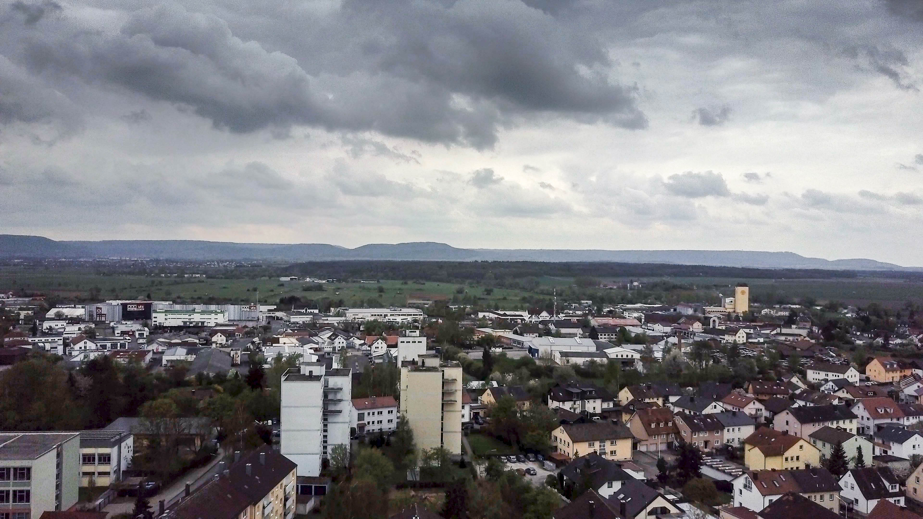 View of the industrial part of the German town of Hassfurt from north. The landmarks, typical for the town, are not on the picture. Drone photo from ~ 40 meter elevation.